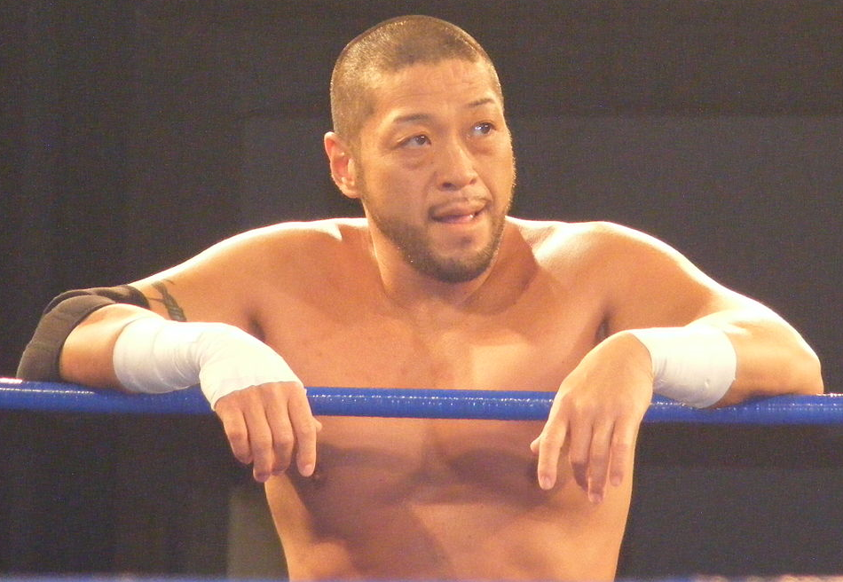 Professional wrestler Dick Togo from 2011.